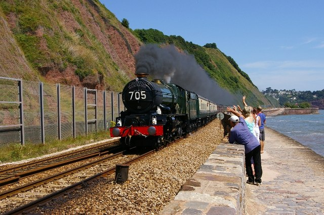 6024 King Edward 1 heads the Torbay Express Taken looking towards Sprey Point, and Dawlish.